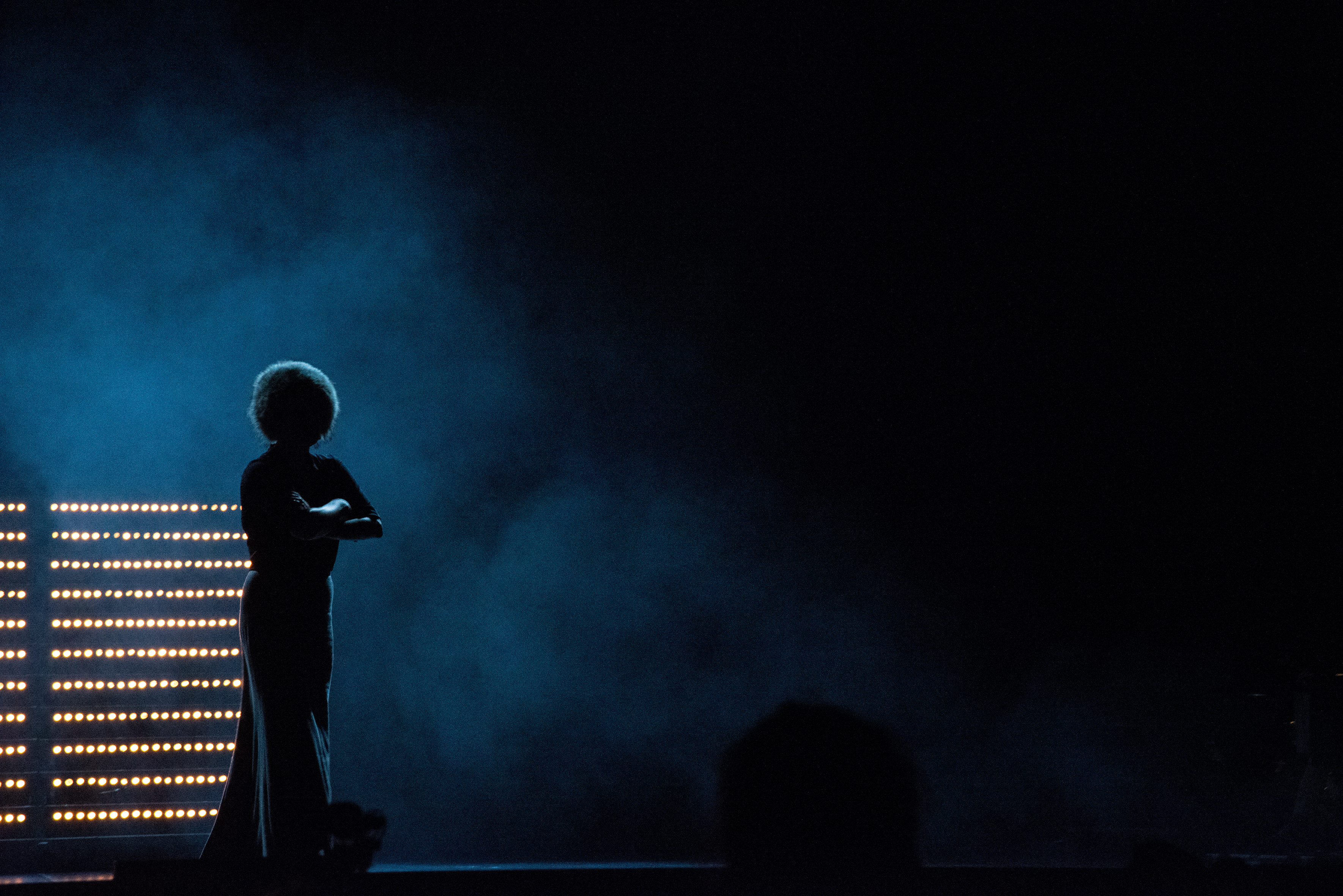 Die letzten Tage der Menschheit, Salzburger Festspiele 2014, Dörte Lyssewski (Schalek)